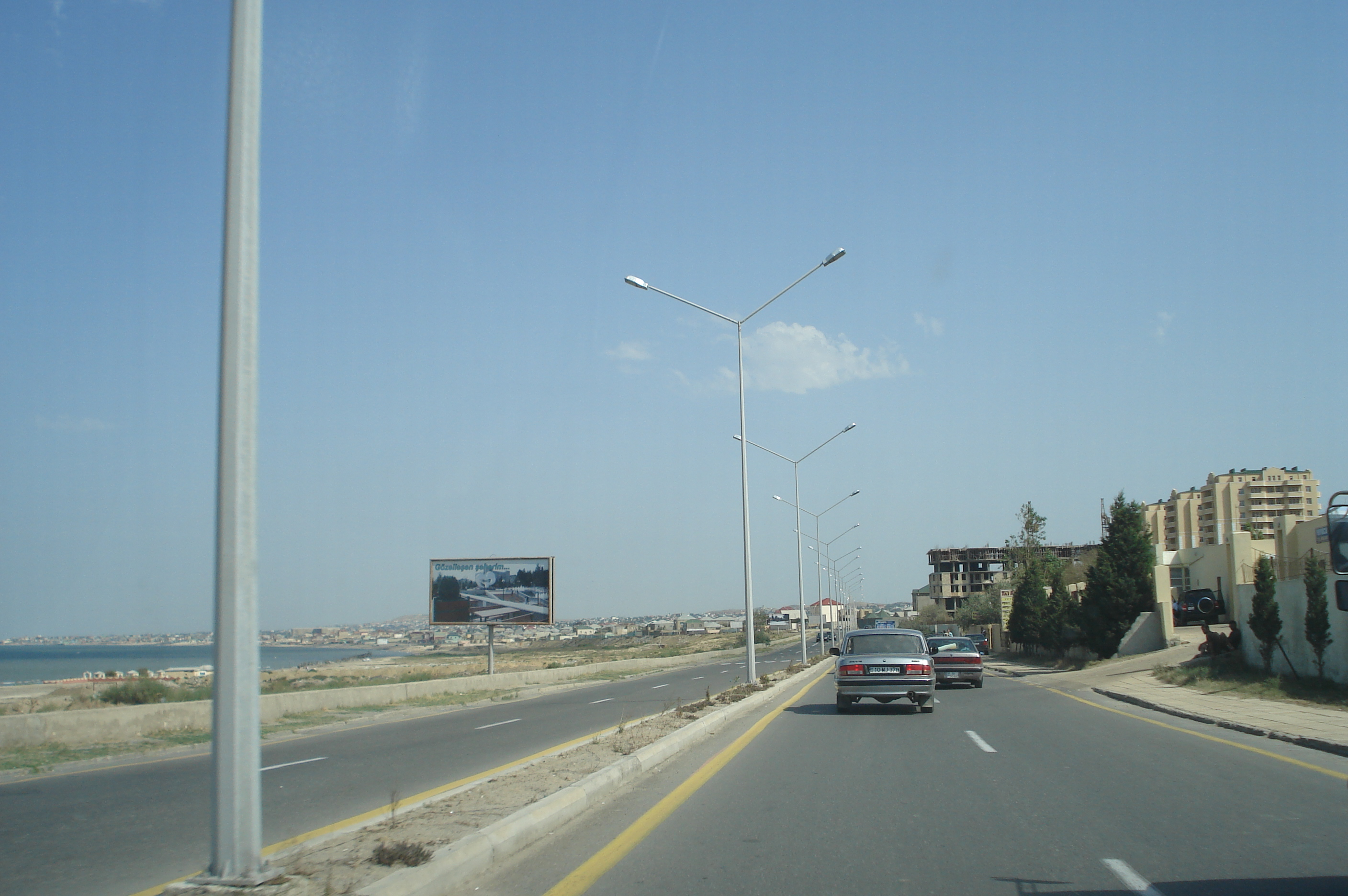 East end of Sumgayit and Caspian sea